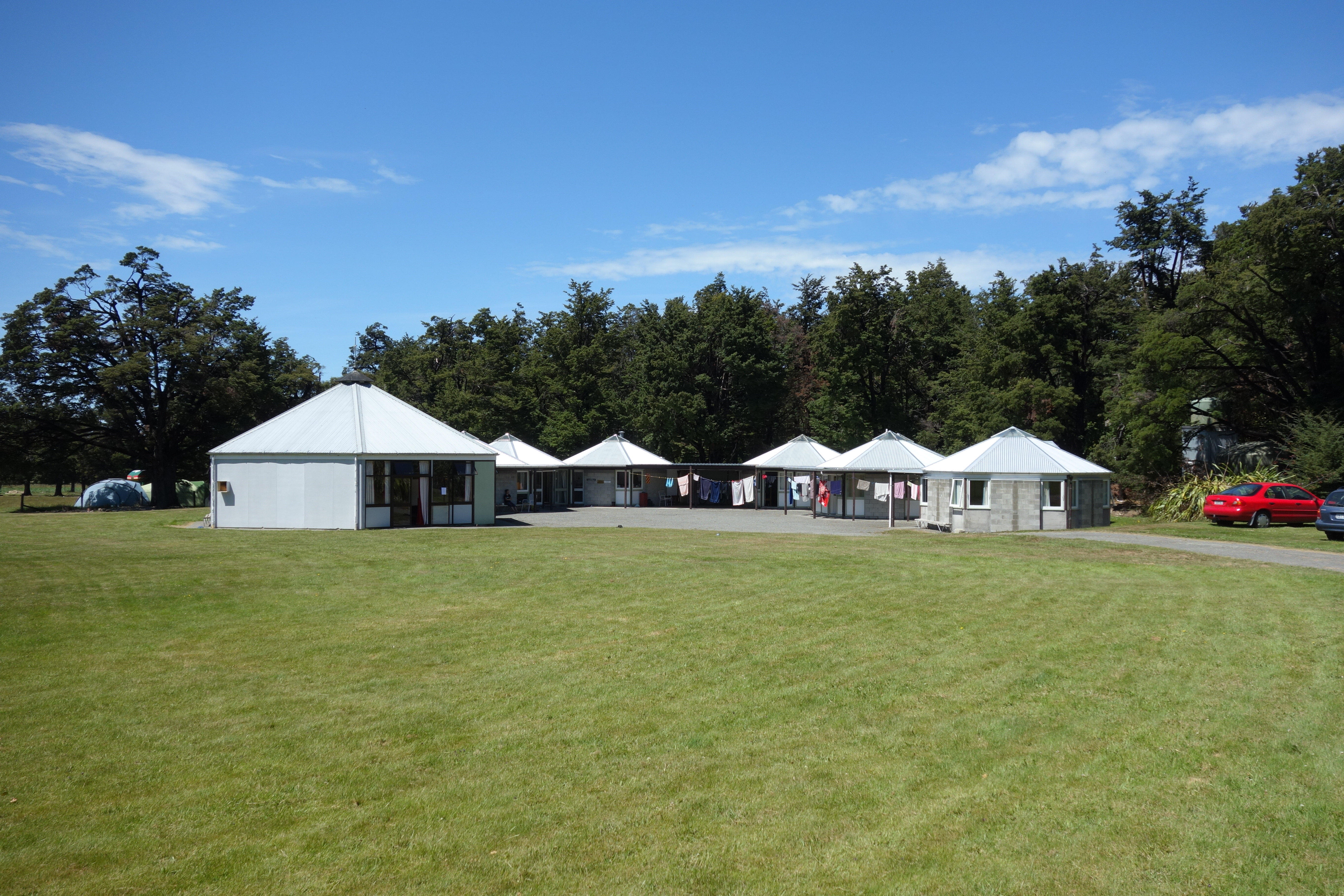 Staveley Camp in January 2016